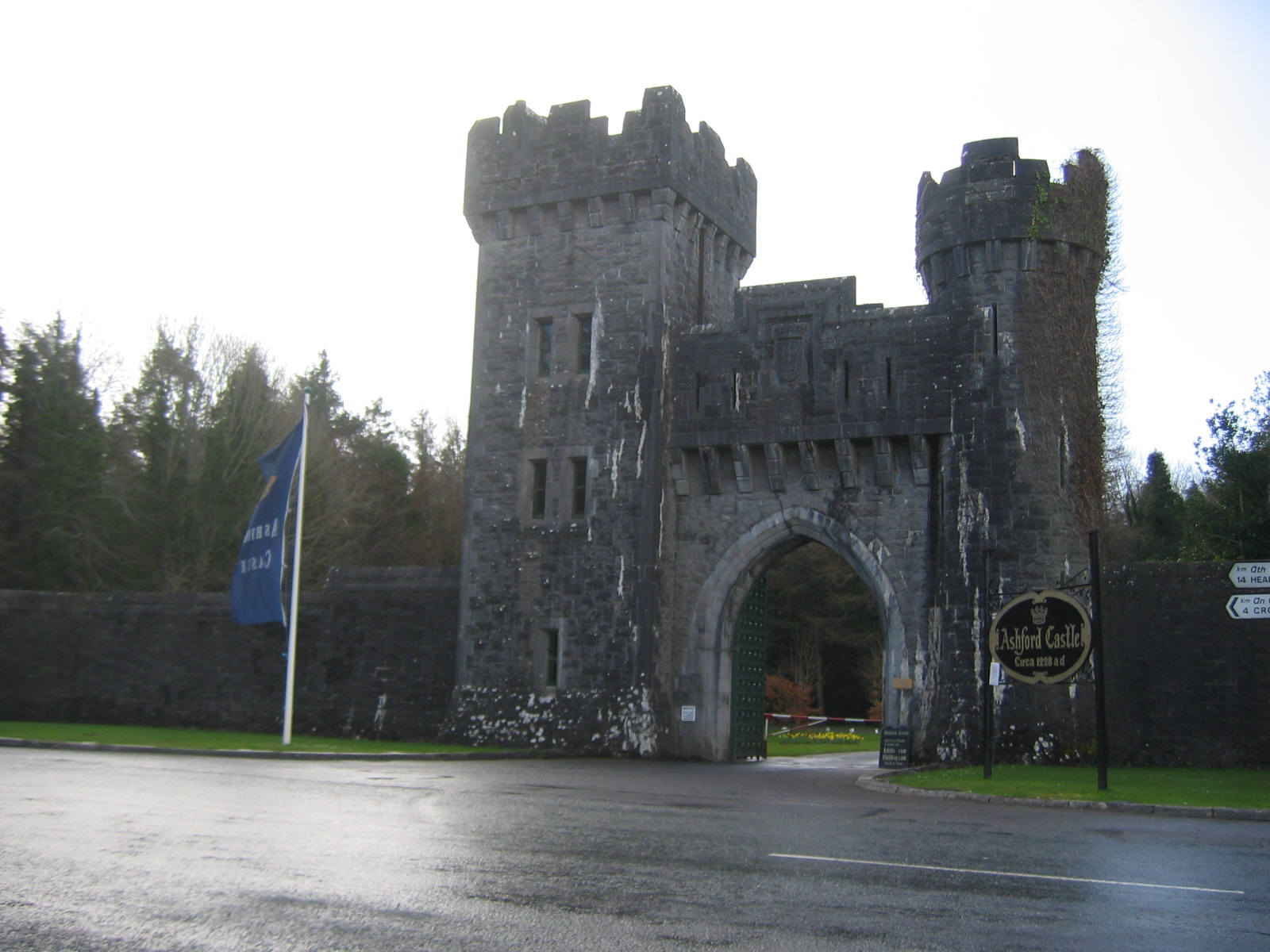 Entrance to Ashford Castle, Co. Mayo, Ireland